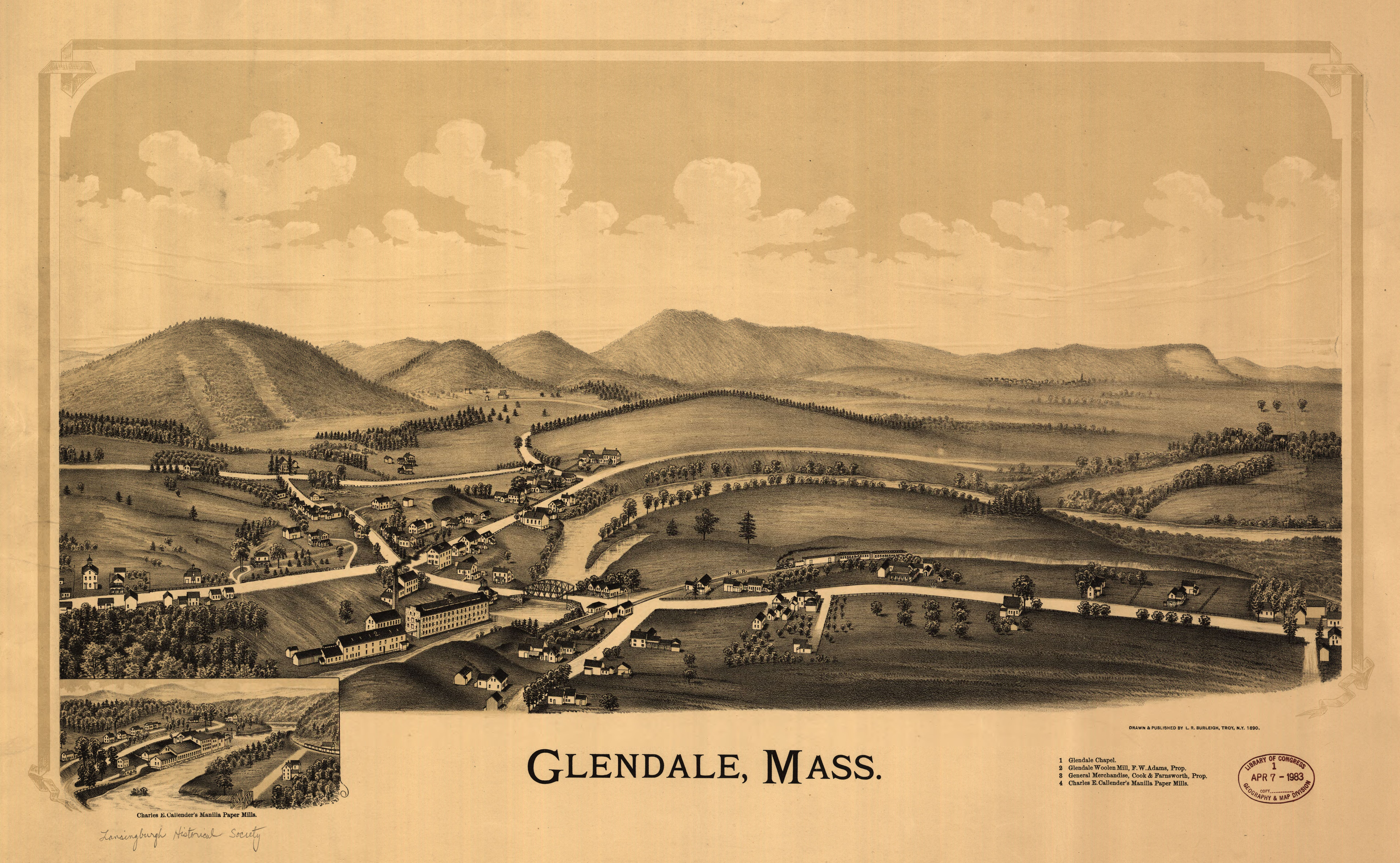 Bird's-eye view. Available also through the Library of Congress Web site as a raster image. Includes col. ill. and index to points of interest. PM3